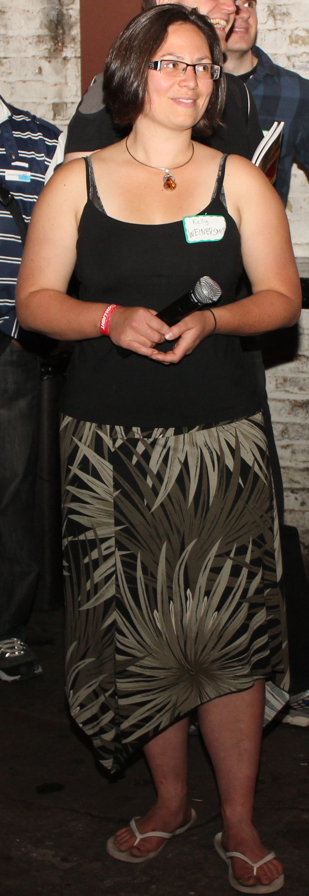 The incomparable Kelly Weinersmith handling the crowd like a pro